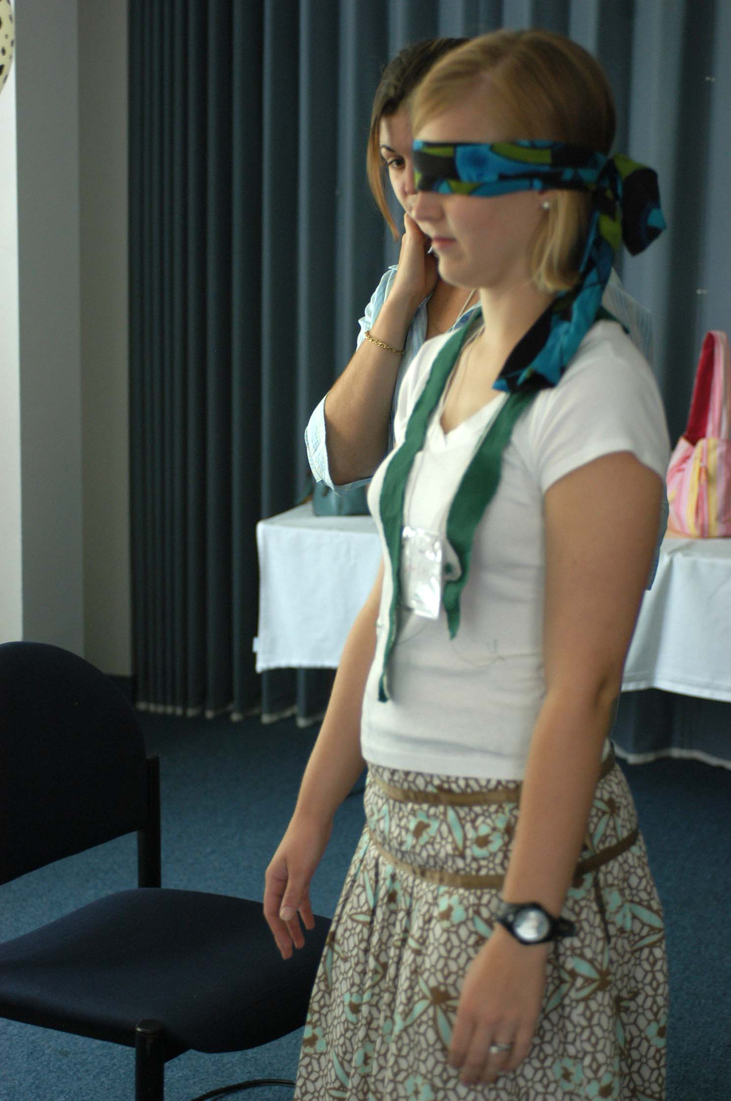 Marine Corps Base Camp Lejeune, North Carolina. Military spouses enhance communication skills by conducting an exercise involving finding objects in a room while blindfolded as part of an "In the Midst" workshop sponsored by Marine Corps Family Team building.